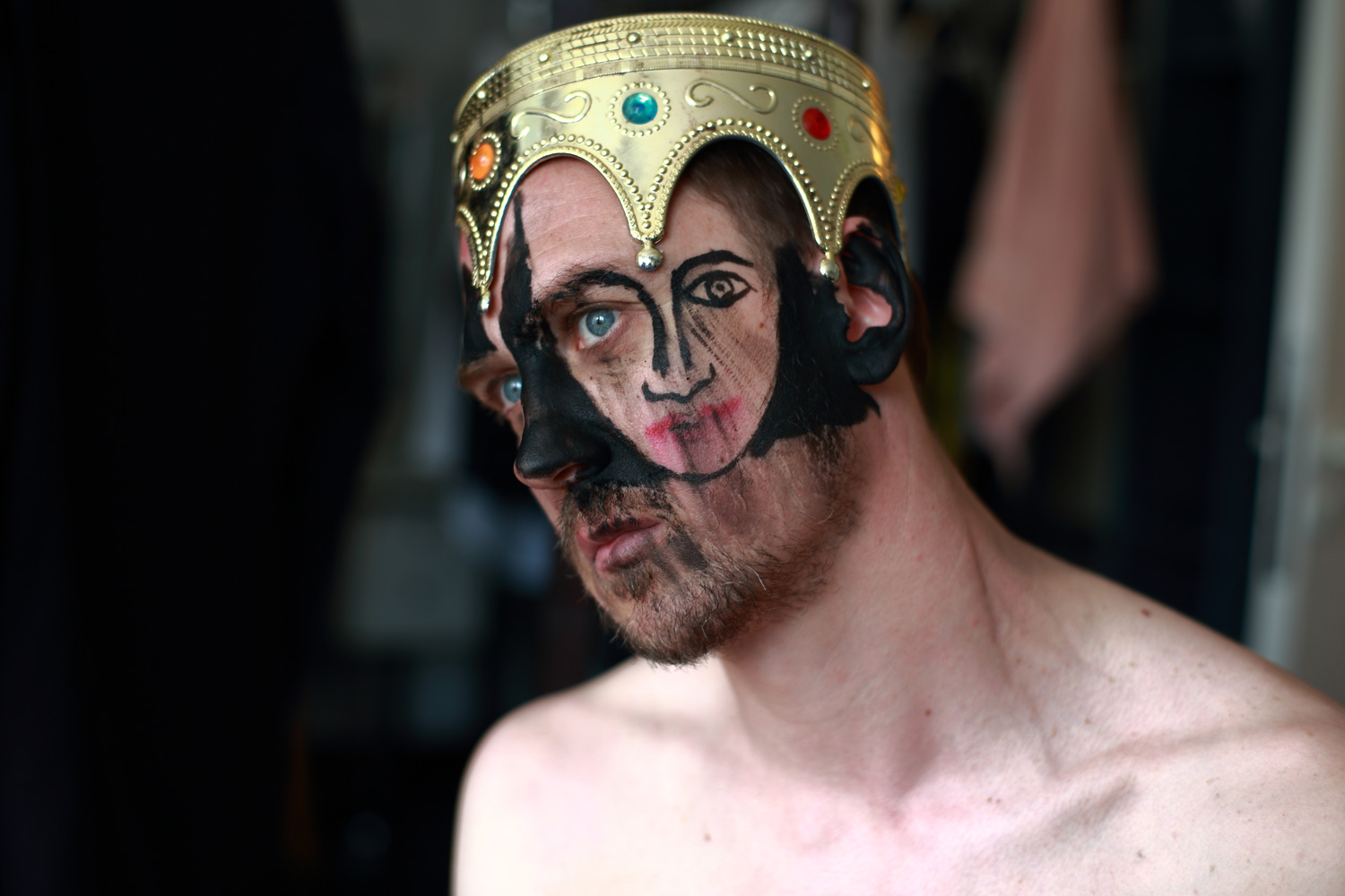 Sebastian Bieniek, „Small Face No. 1“, 2017. Model: actor Lars Eidinger as Hamlet. Oeuvre of Bieniek-Face. Portrait. Body painting. Face painting.